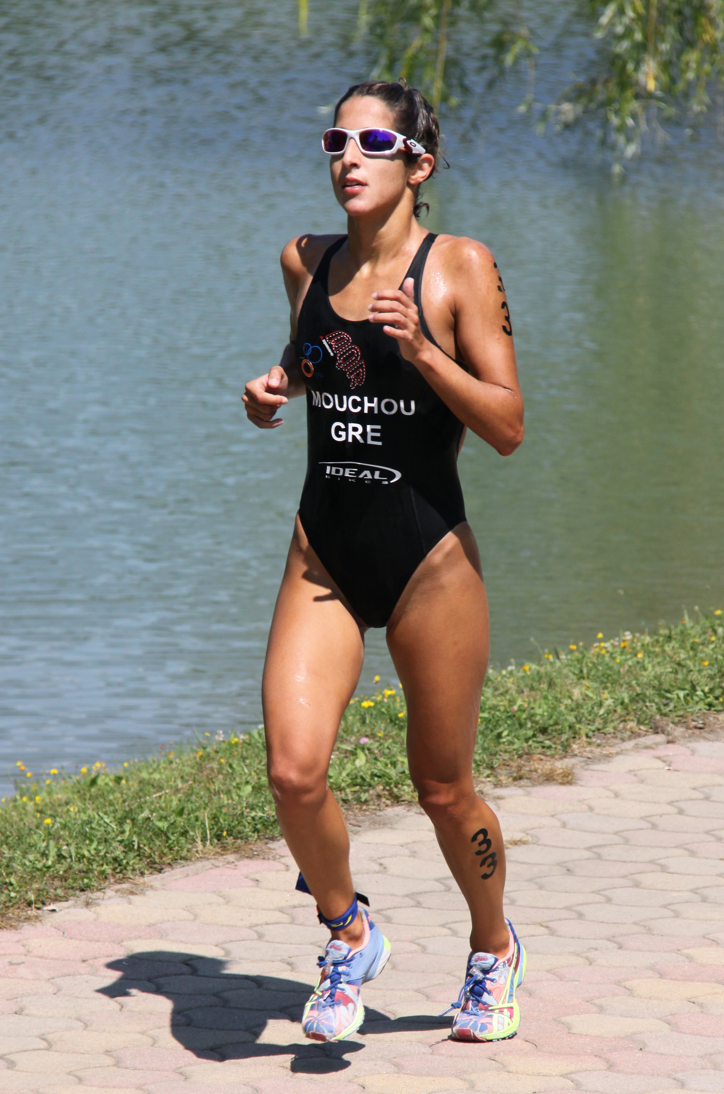 Irini Mouchou Ειρήνη Μούχου Triathlon Tiszaujvaros 2009